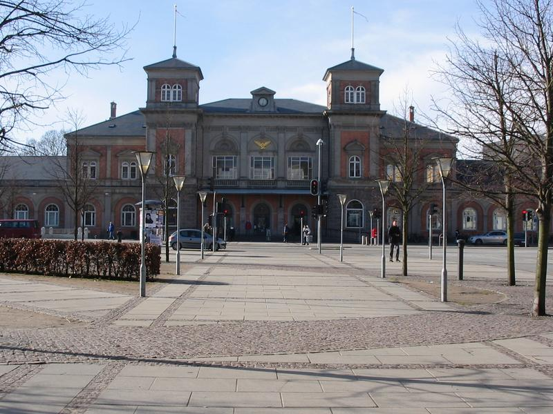 Aalborg train station (Denmark)